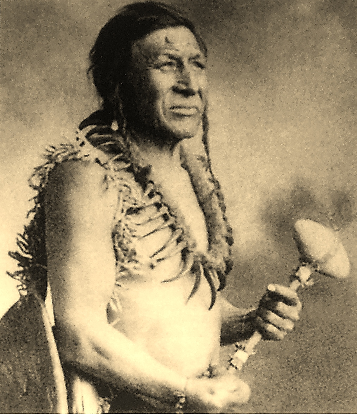 This is my photo of an photo by Reverend William A. Petzoldt (taken about 1900) of White Swan, (1850-52 (circa) to 1904). The original photo is evidenced by a lantern slide in the William A. Petzoldt Lantern Slide Collection of the McCracken Research Library of the Cody Museum, at Cody Wyoming. White Swan was a Crow Scout for the U.S. Army at the Battle of the Little Big Horn. White Swan was with the detachment that fought under Reno, and so survived the battle. White Swan was badly wounded at the battle, in his right hand, right wrist, and thigh. The wound to his right wrist never healed properly and is visible at the bottom of the photo. White Swan indicated through sign language (he was deaf and dumb during the latter part of his life) and in his drawings that also had been struck on his forehead with a war club in a fight with a Sioux warrior, and the scar is also visible in this photo.